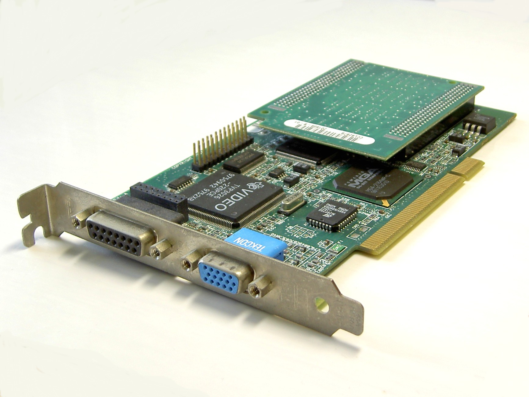 Matrox Millennium II PCI with VRAM Board